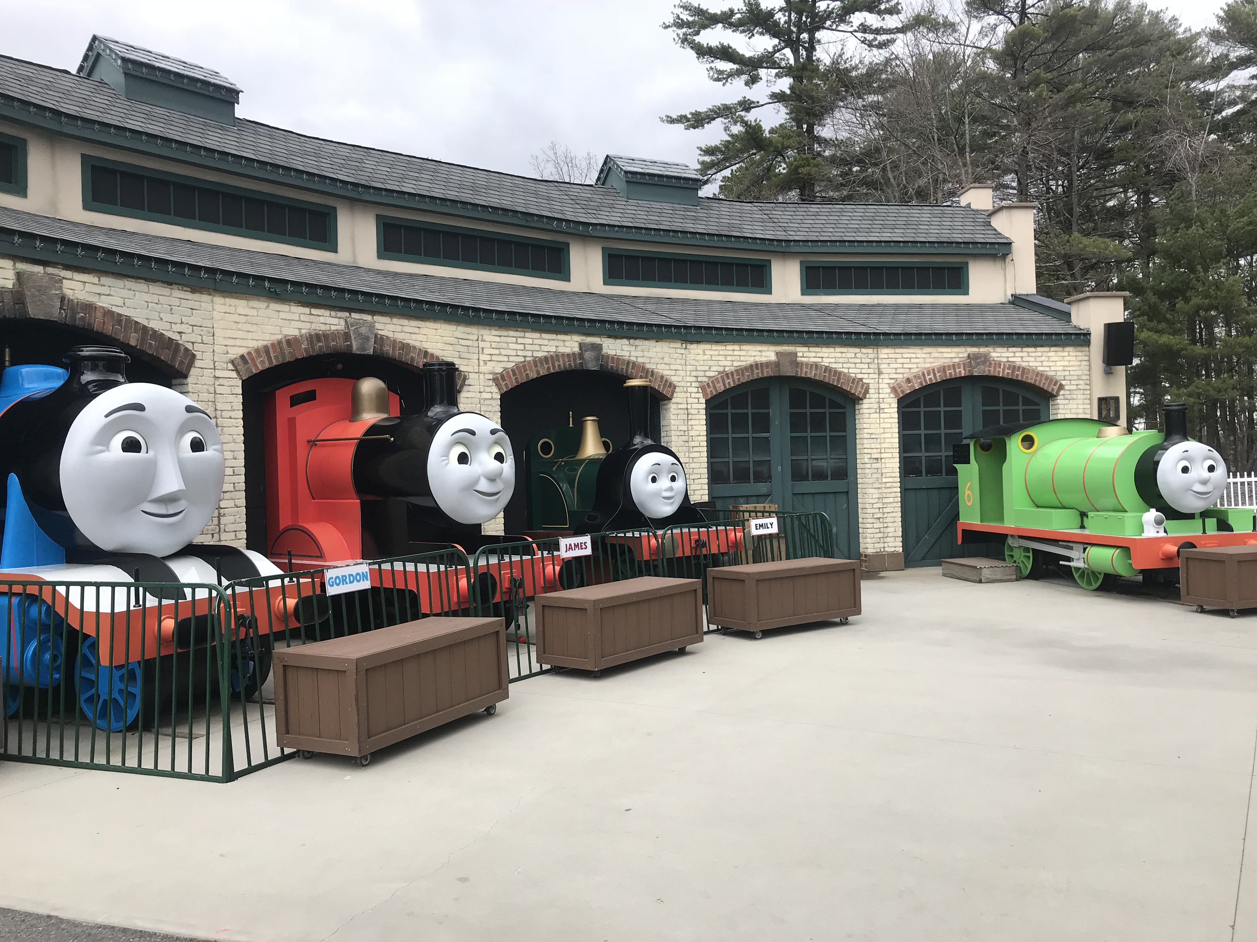 Tidmouth Shed is located in Edaville's Thomas Land where park goers can interact and hang with Gordon, James, Percy and Emily.